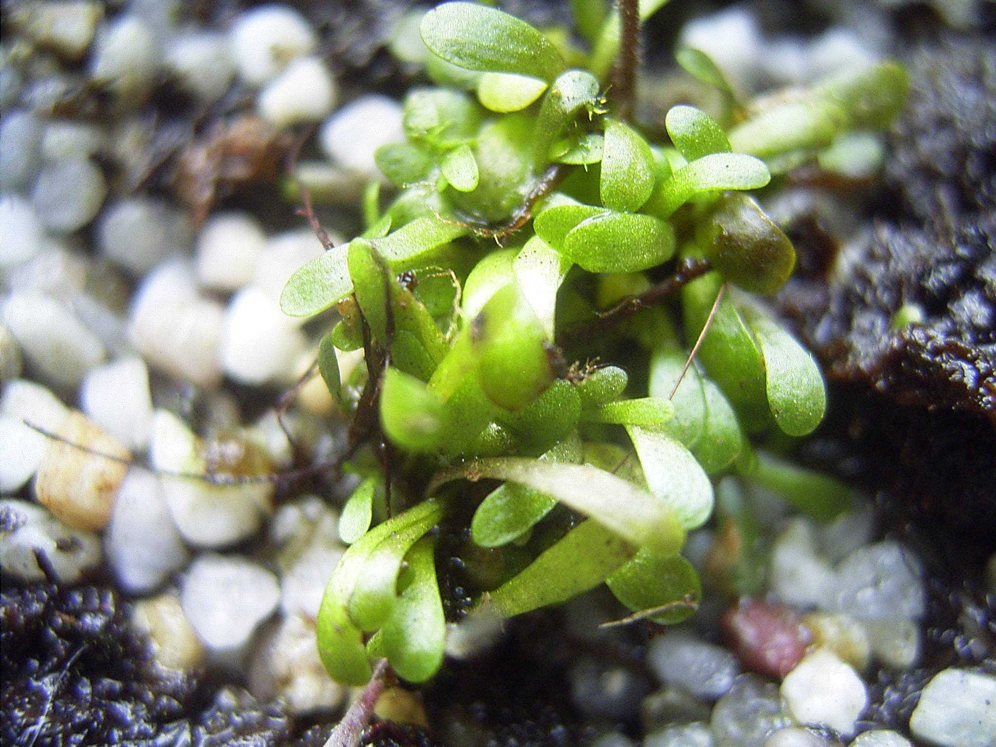 Genlisea repens Author: Denis Barthel